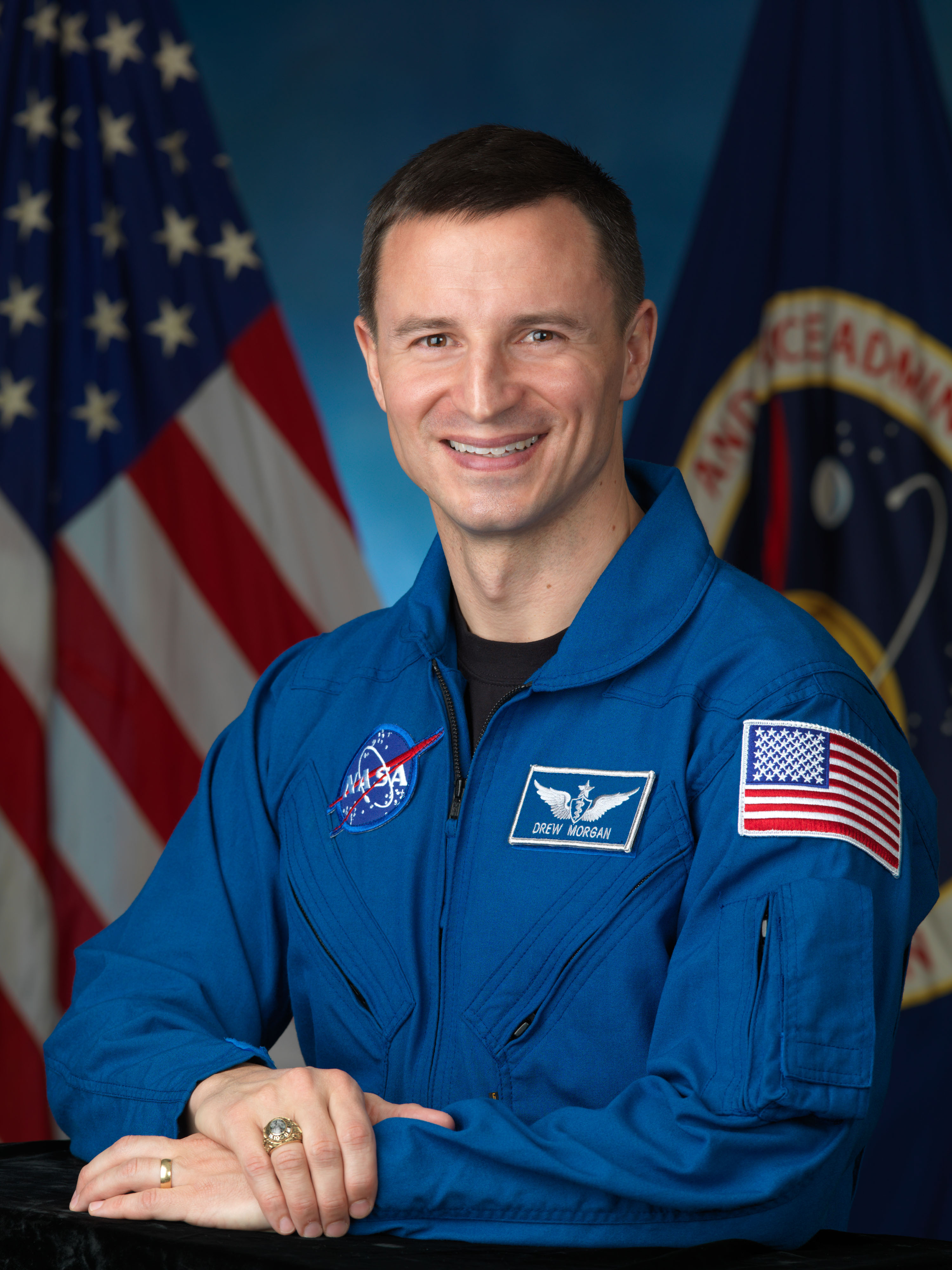 Andrew R. (Drew) Morgan, NASA astronaut candidate class of 2013.